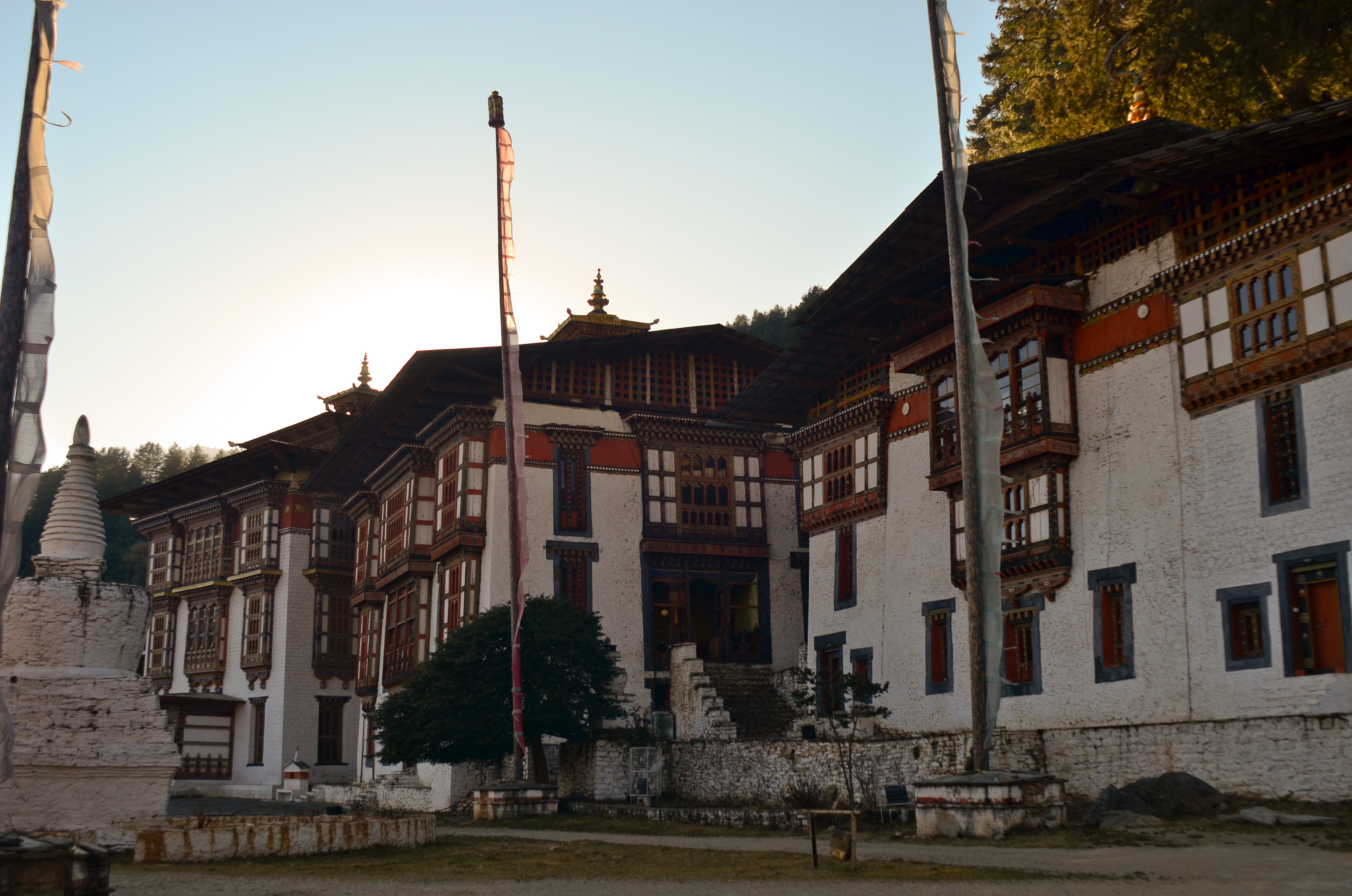 Kurje Lhakhang, Bumthang, Bhutan